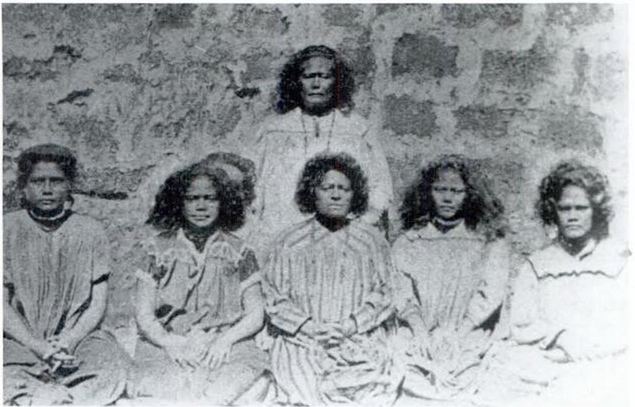 The Queen (Lavelua) Amelia in 1887 in front of the royal palace of Wallis island (Uvea), sitting with young girls from the aristocracy (Aliki)